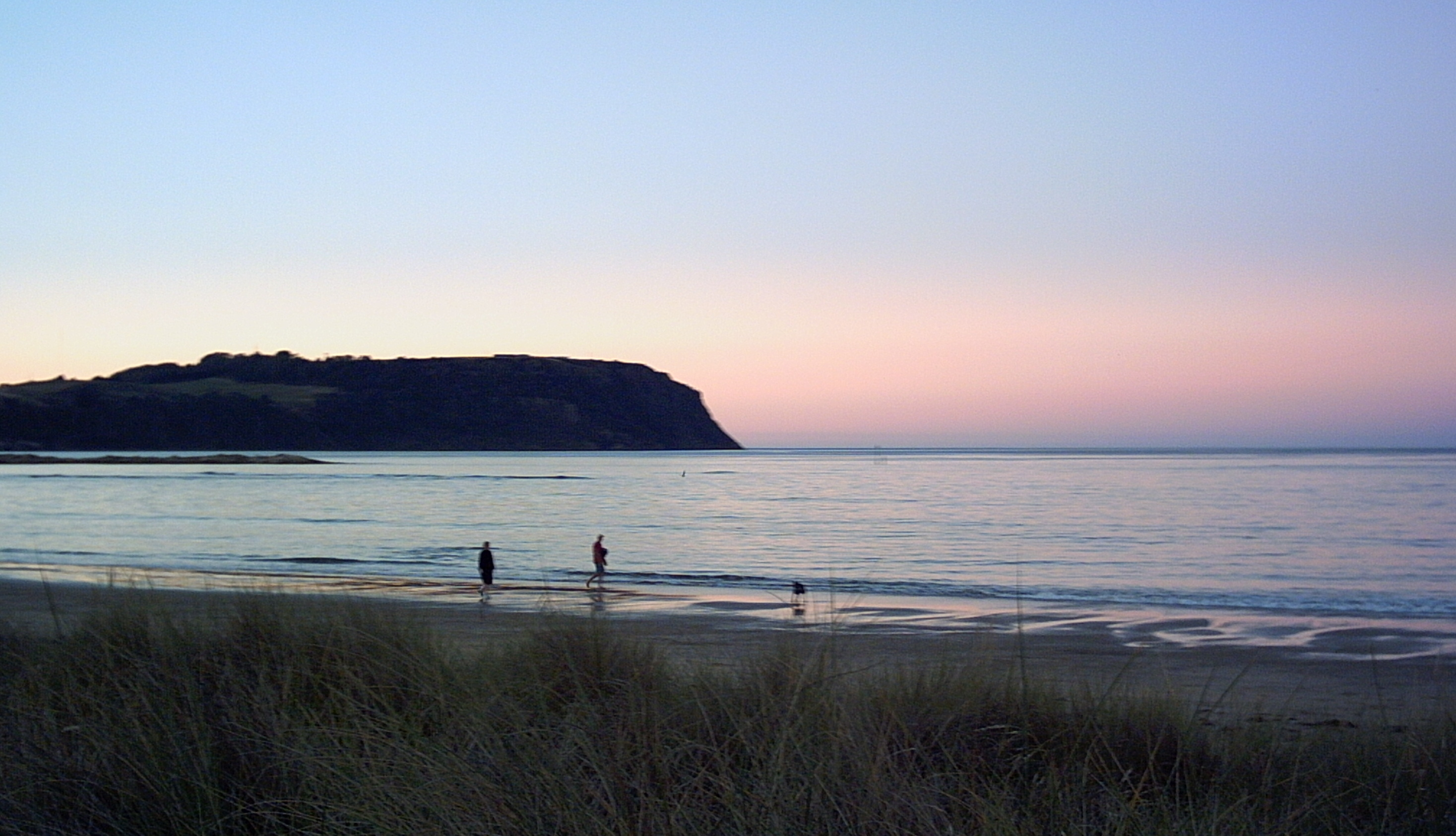 Table Cape at dusk 2004